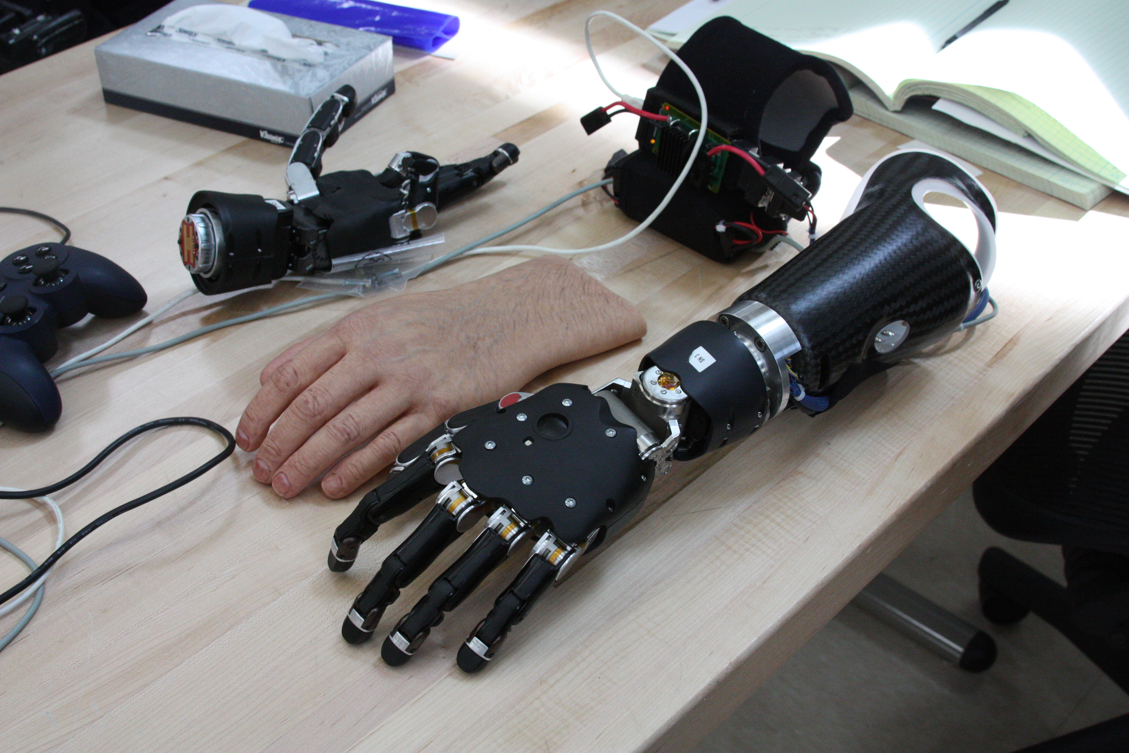 Bethesda, Md. (Feb. 2, 2012) The Modular Prosthetic Limb (MPL) was developed as part of a four-year program by the Johns Hopkins Applied Physics Laboratory, along with Walter Reed National Military Medical Center and the Uniformed Services University of the Health Sciences. The brain-controlled prosthetic has nearly as much dexterity as a natural limb, and allows independent movement of fingers. The MPL was used by wounded warriors at the Walter Reed National Military Medical Center for the first time Jan. 24, 2012. (U.S. Navy photo by Sarah Fortney/Released) 120202-N-AN650-001